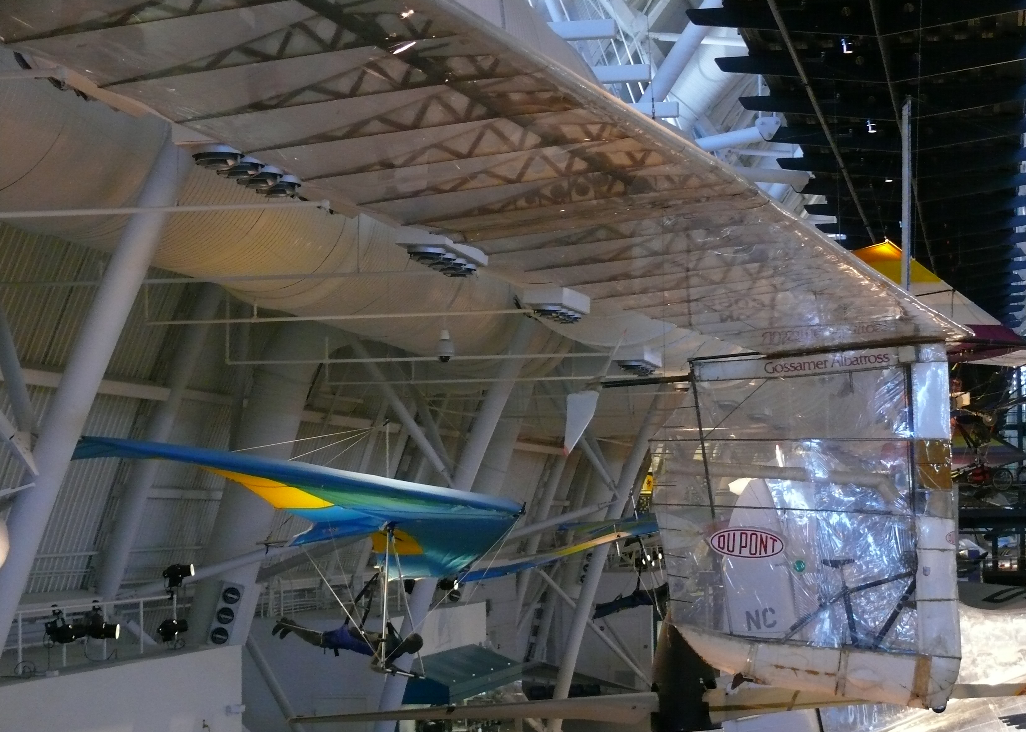 The Gossamer Albatross, a human-powered aircraft, in the Steven F. Udvar-Hazy Center, Chantilly, VA near Washington DC.